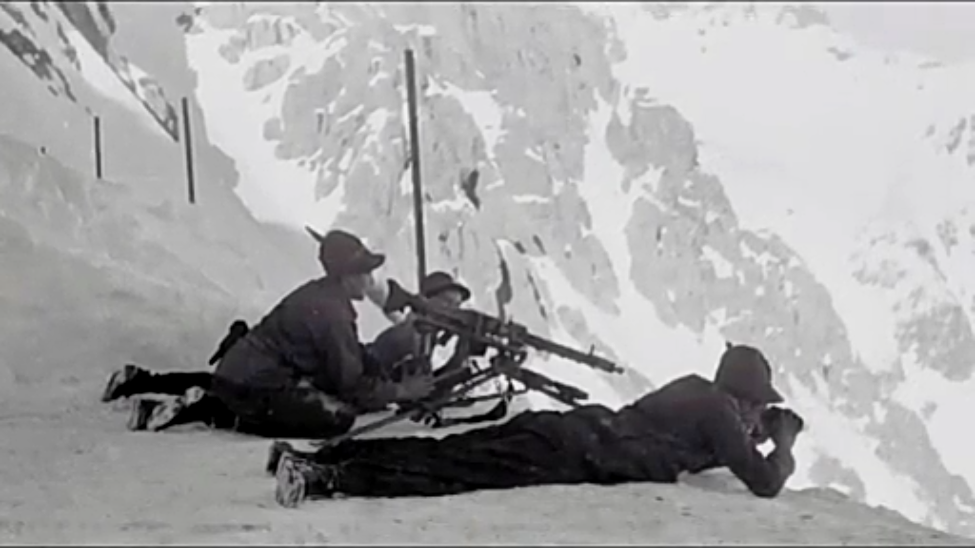 Italian Alpini on the mountains of Aosta Valley manning a machinegun in 1945